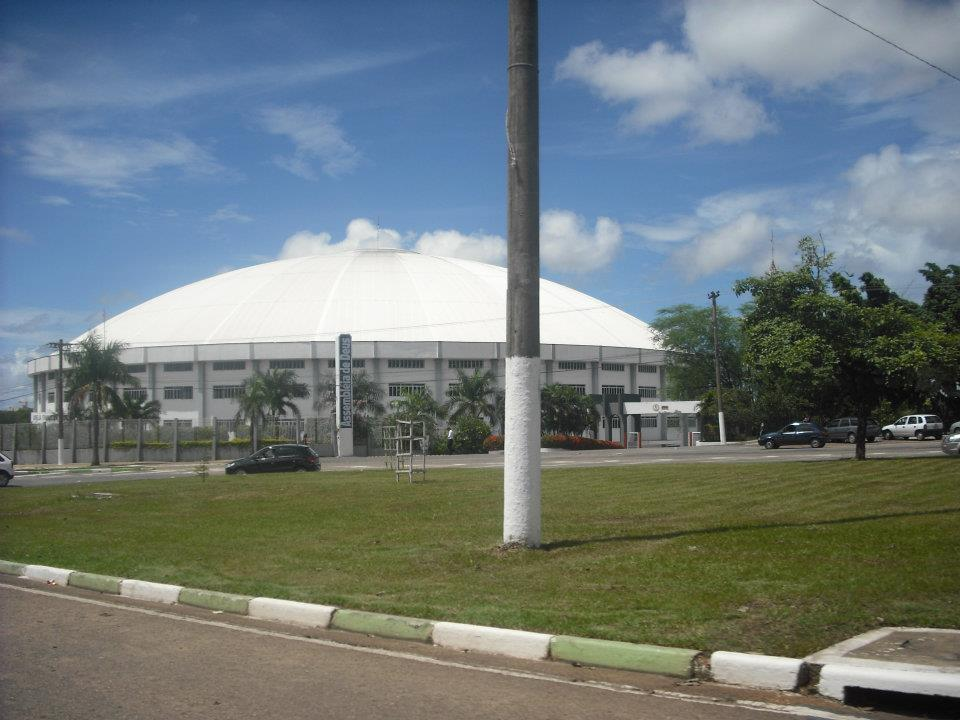 Grande Templo from Cuiabá, Assembléias de Deus do Brasil